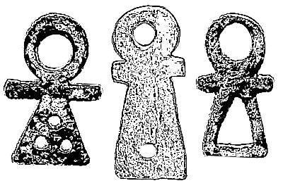 Pendants in the shape of the "sign of Tanit" found at Ashkelon in modern Israel. See: [1]